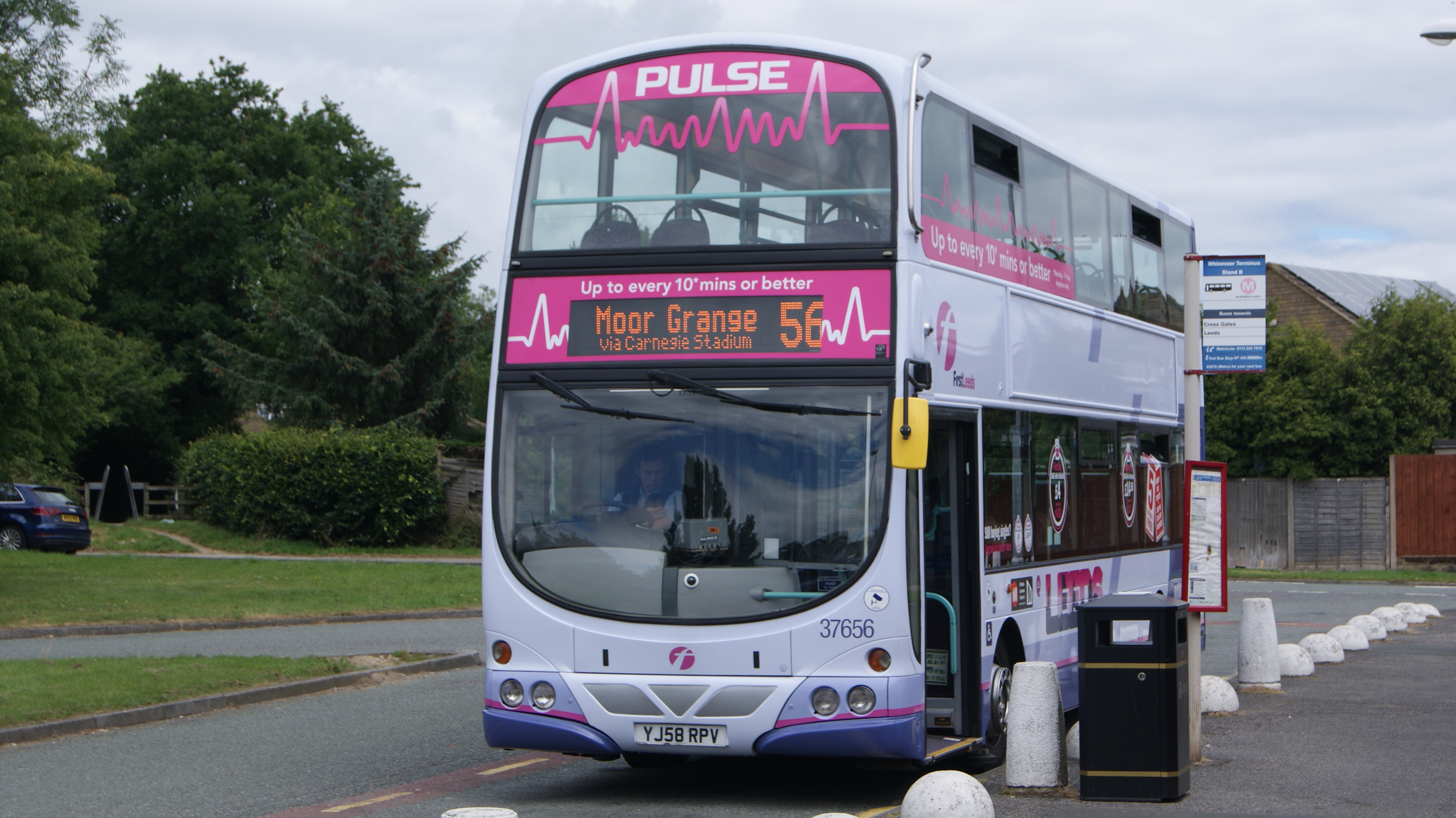 First Leeds 56 at the terminus, Whinmoor, Leeds, West Yorkshire. Taken on the afternoon of Friday the 14th of July 2017.